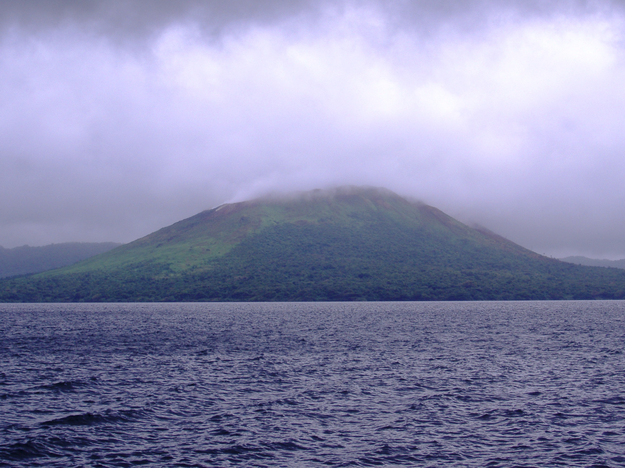 Photo of Mount Gharat and Lake Letas on Gaua Island in northern Vanuatu, taken by Brad Warden in August 2006.